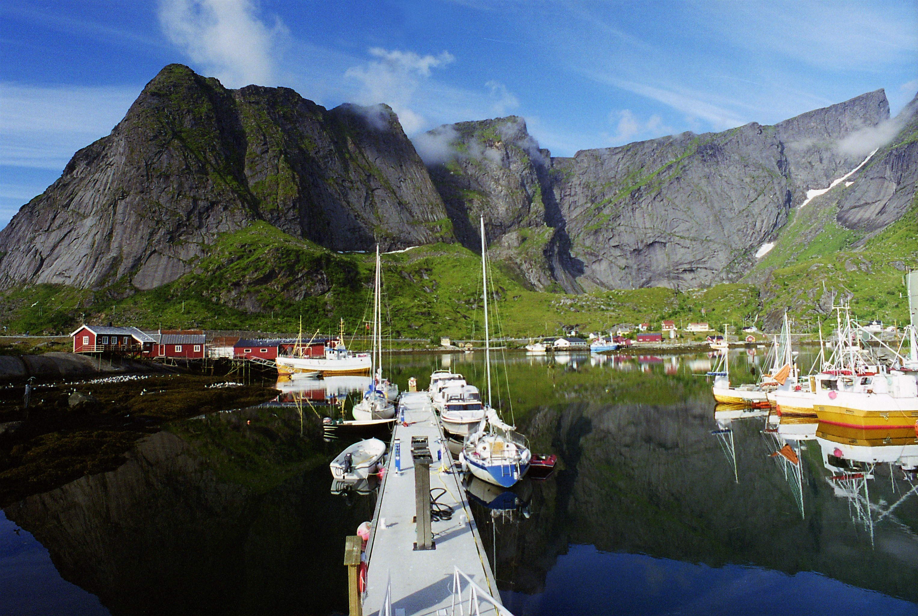 View of port of small village of Reine on Lofoten